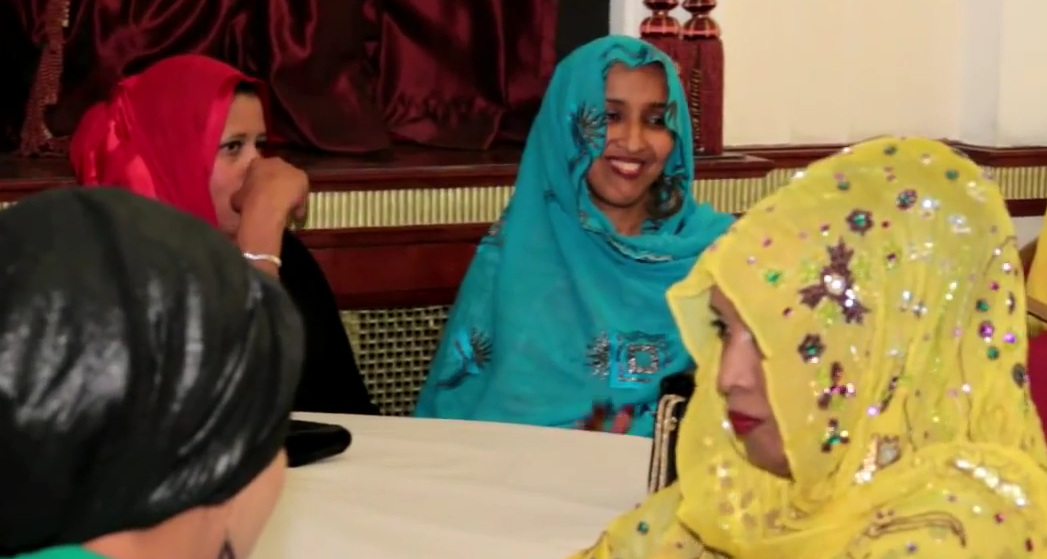 Somali women at a Somali community event.